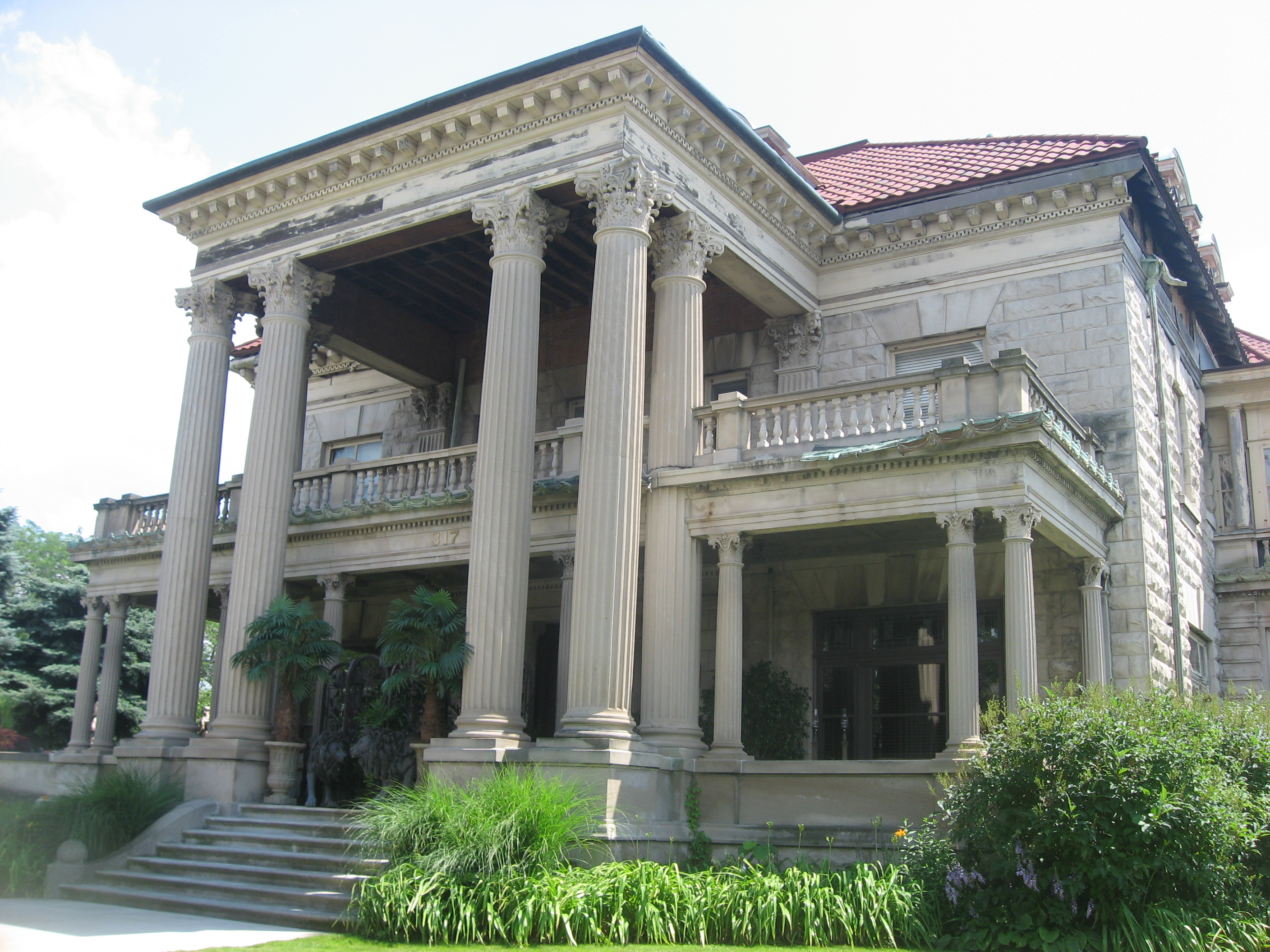 Front of the Beiger House, located at 317 E. Lincolnway (State Road 933) in Mishawaka, Indiana, United States. Built in 1903, it is listed on the National Register of Historic Places.